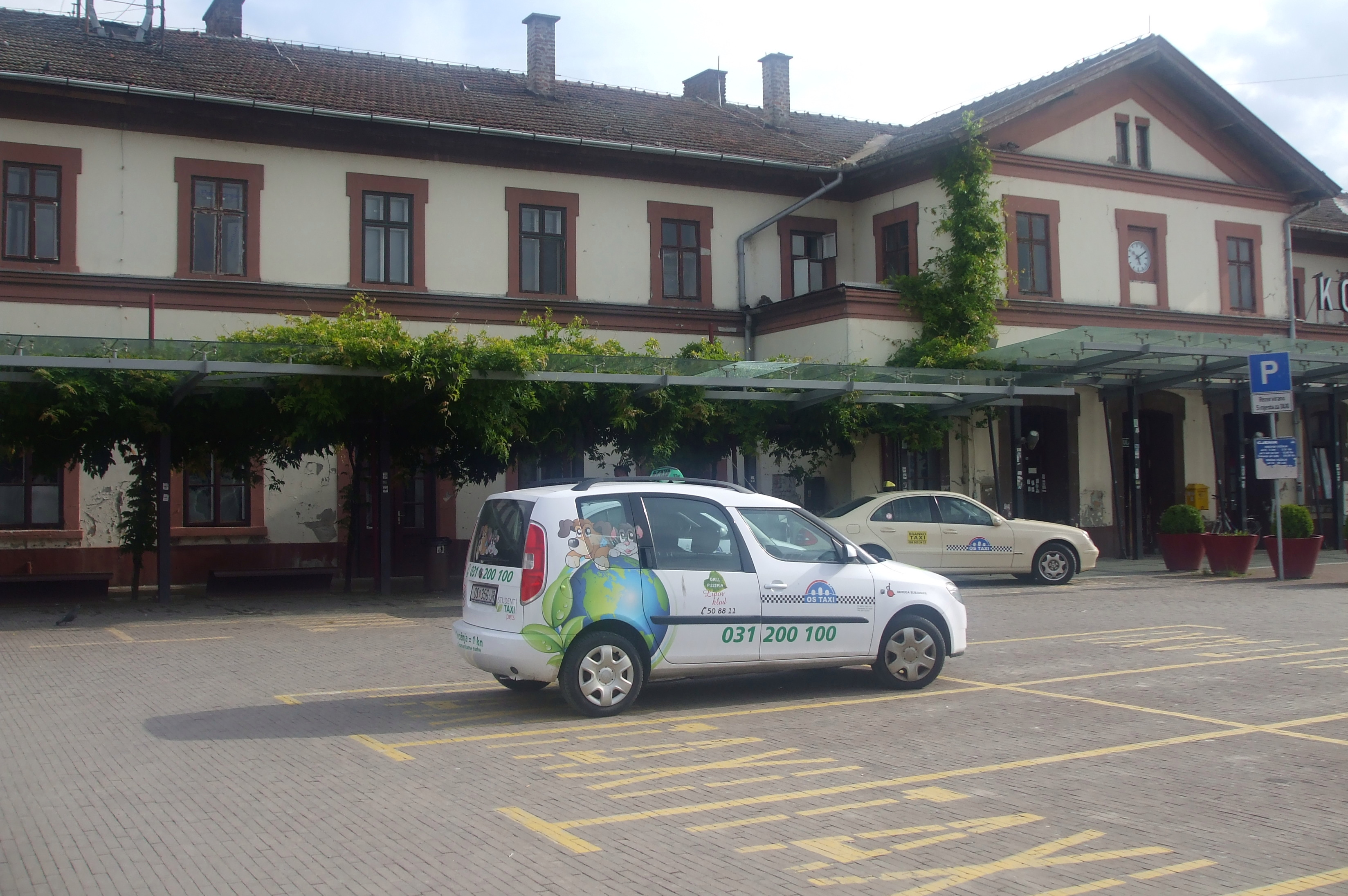 Main railway station in Osijek, Croatia.